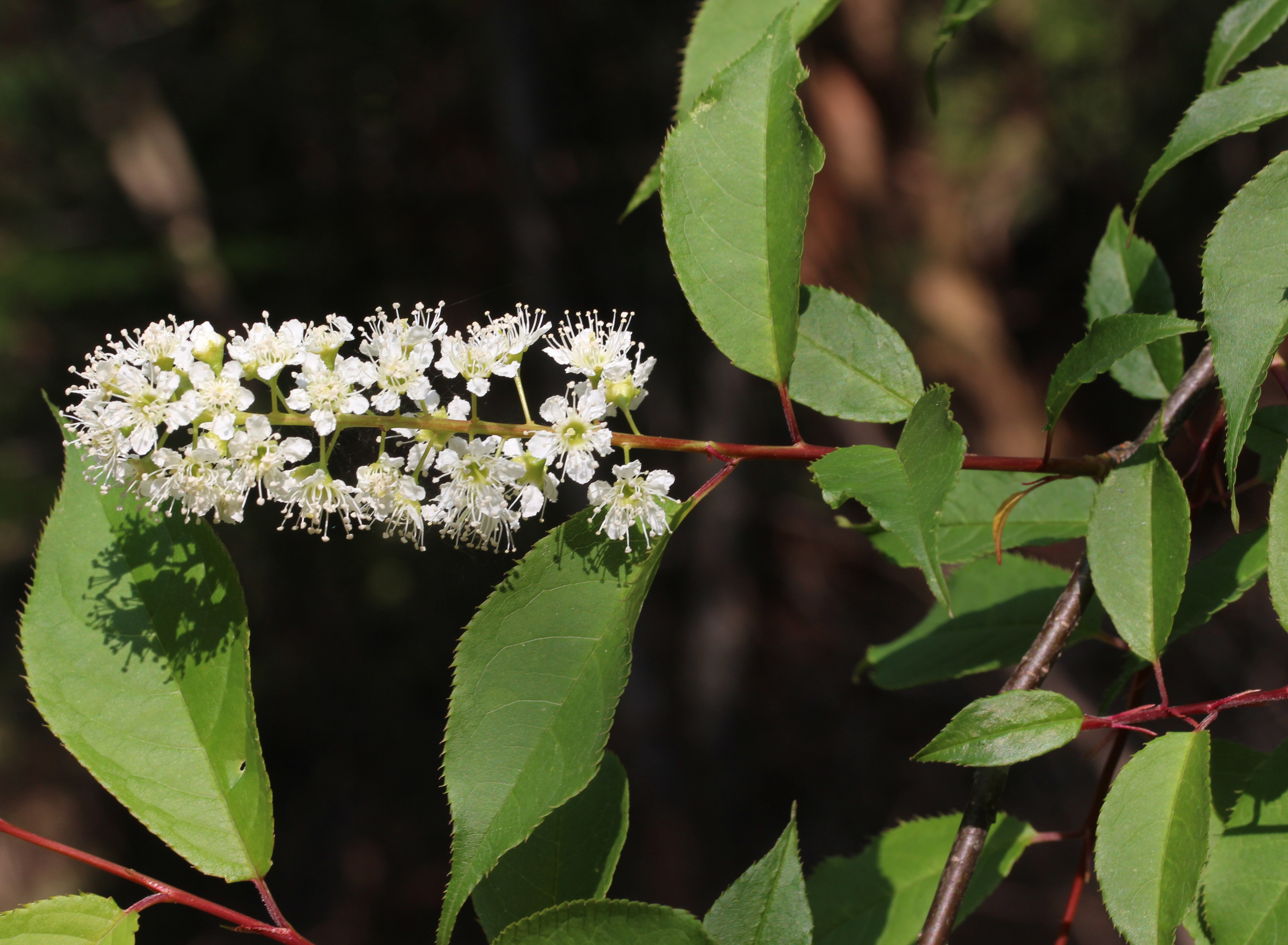 Japanese Bird Cherry Padus grayana (Prunus grayana), in Yōrō Mountains、Inabe, Mie pref. ,Japan.